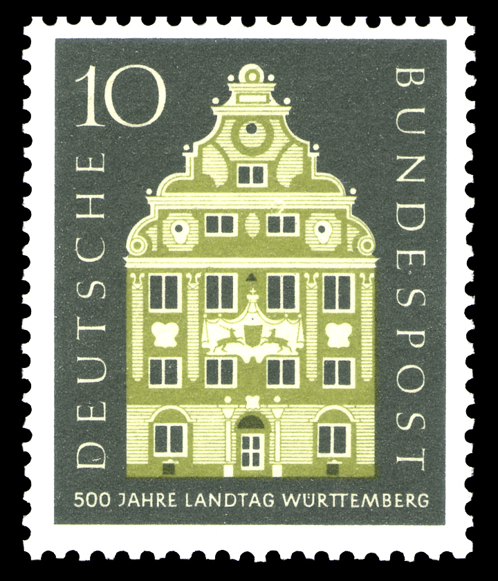 Special stamp for 500 jears of the Landtag of Württemberg